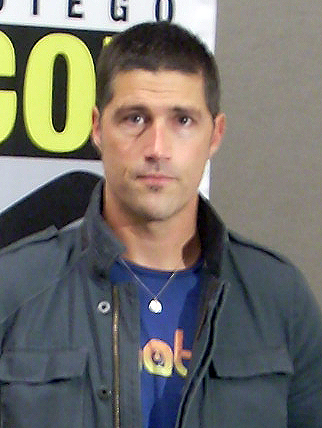 While at Comic-Con International in San Diego, California, United States to promote his continuing television show Lost and his upcoming film Billy Smoke, actor Matthew Fox is interviewed by entertainment columnist Kristin Dos Santos